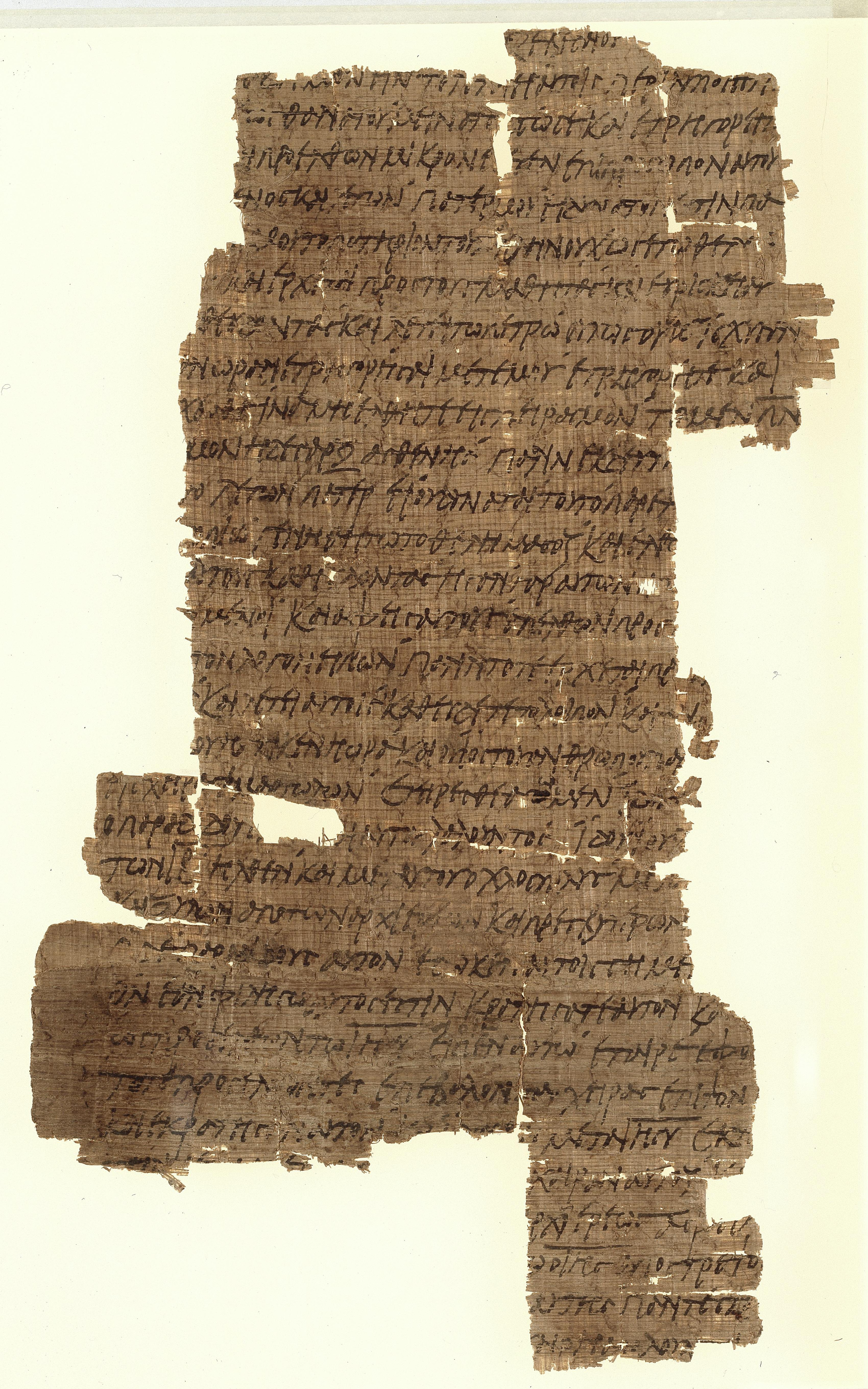 The reverse side of Papyrus 37, a New Testament manuscript of the Gospel of Matthew. Most likely originated in Egypt. Currently housed in